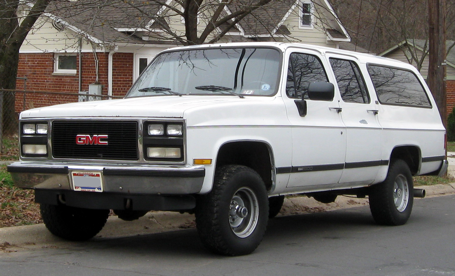 1989-1991 GMC Suburban photographed in Rockville, Maryland, USA.